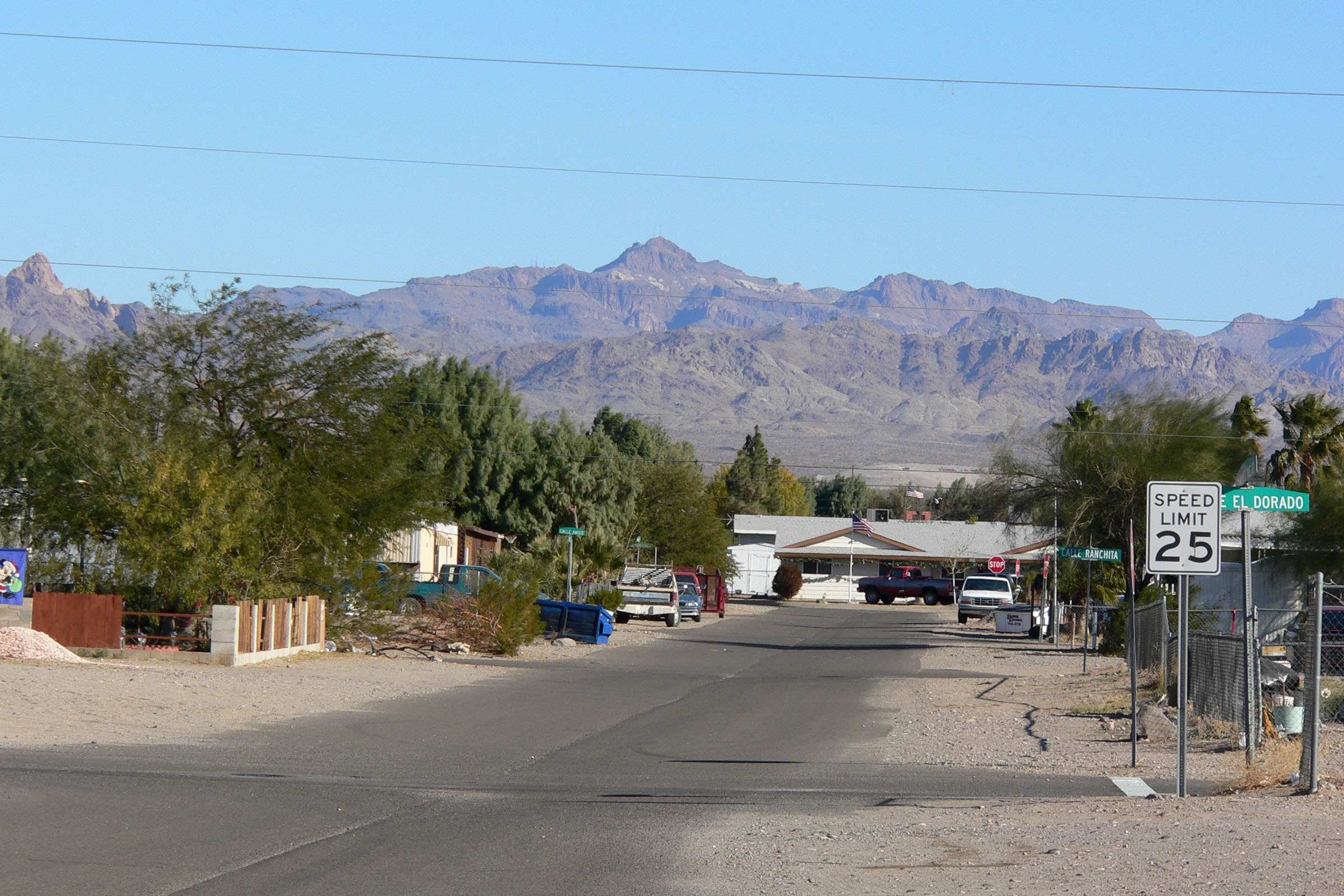 Camp Mohave side street, Mohave Valley, Arizona